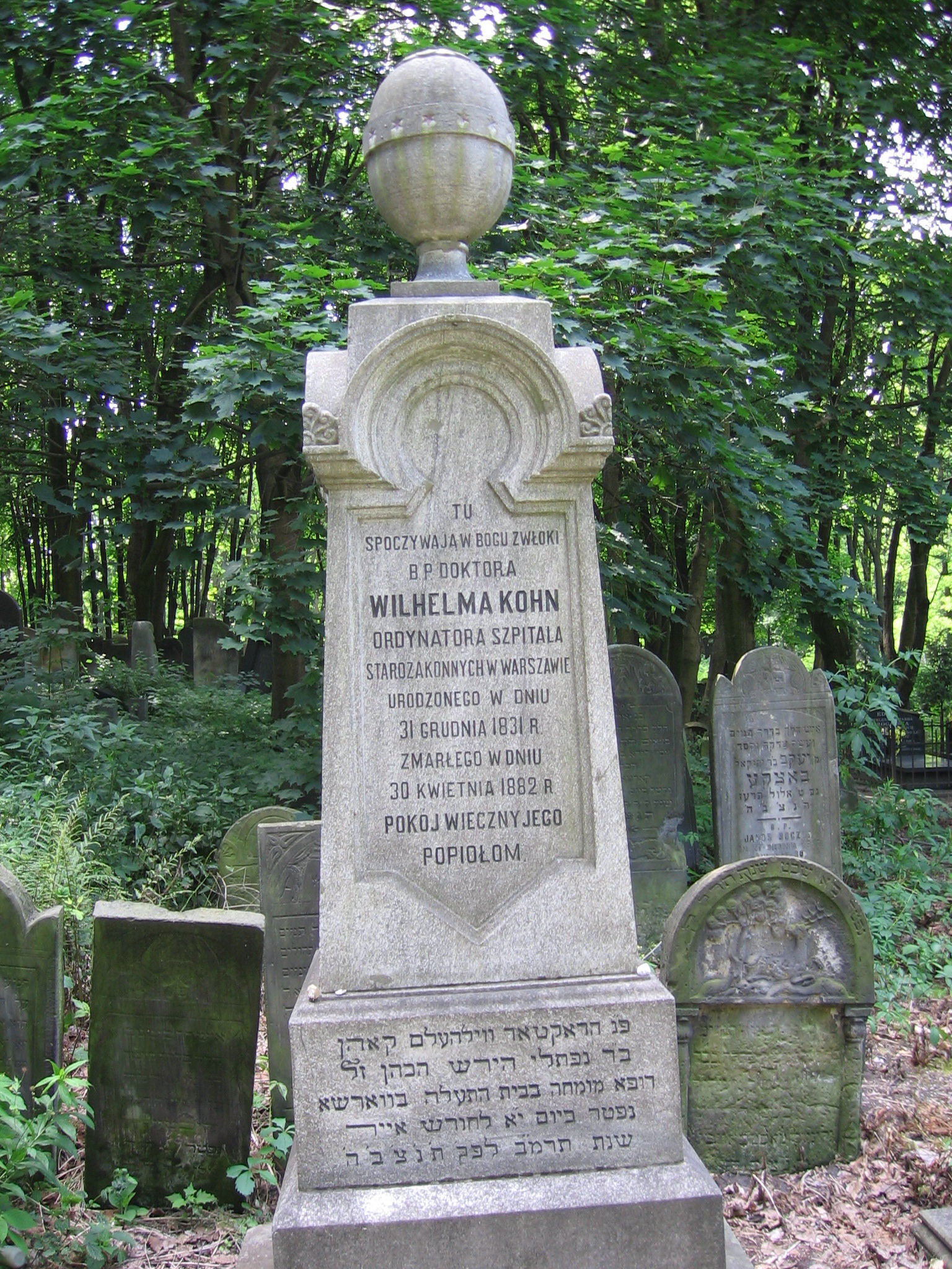 The grave of Wilhelm Kohn at Powązki Jewish Cemetery in Warsaw, Poland